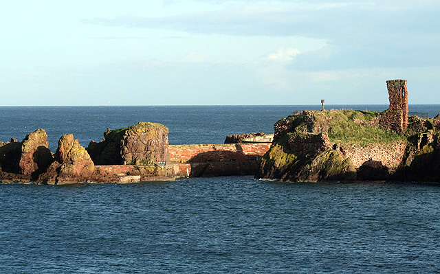 The entrance to Dunbar Harbour Some of the remains of Dunbar Castle are on the right.